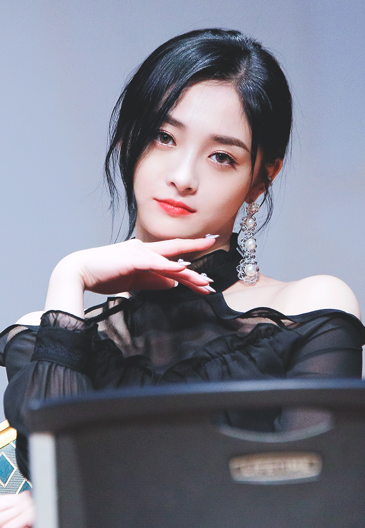 180606 프리스틴 V 노량진 팬사인회